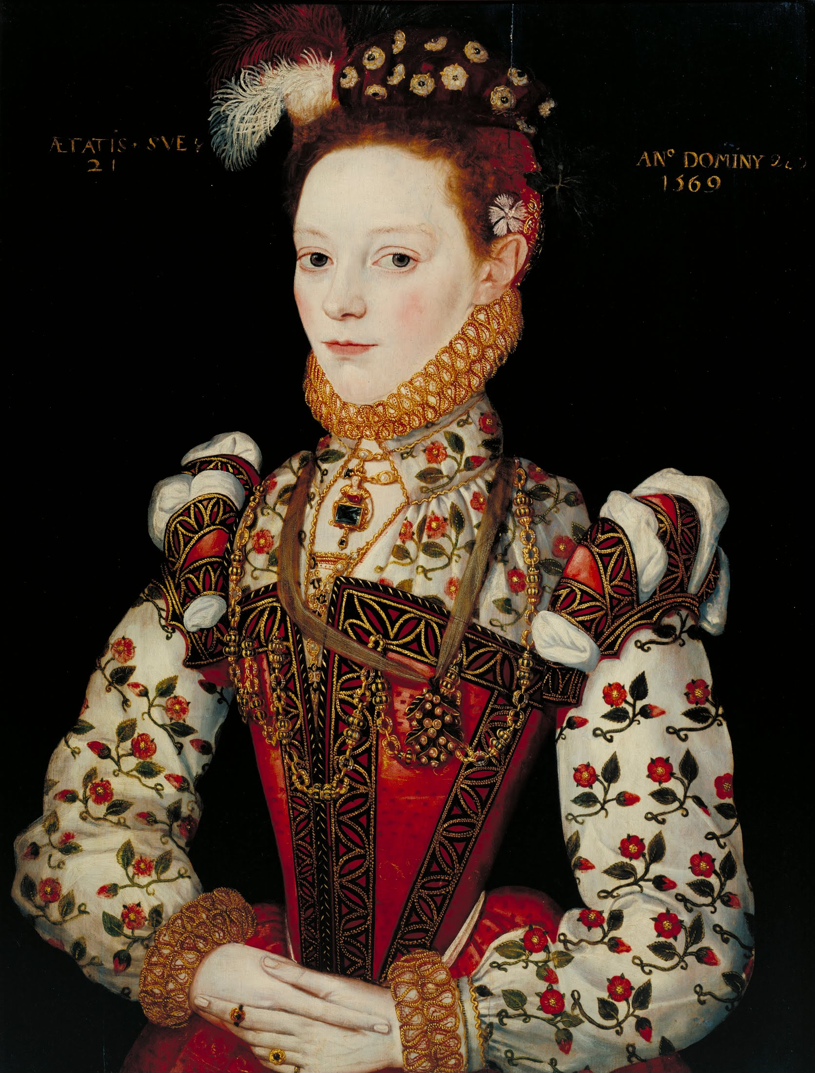 Possibly Helena Snakenborg, later Marchioness of Northampton